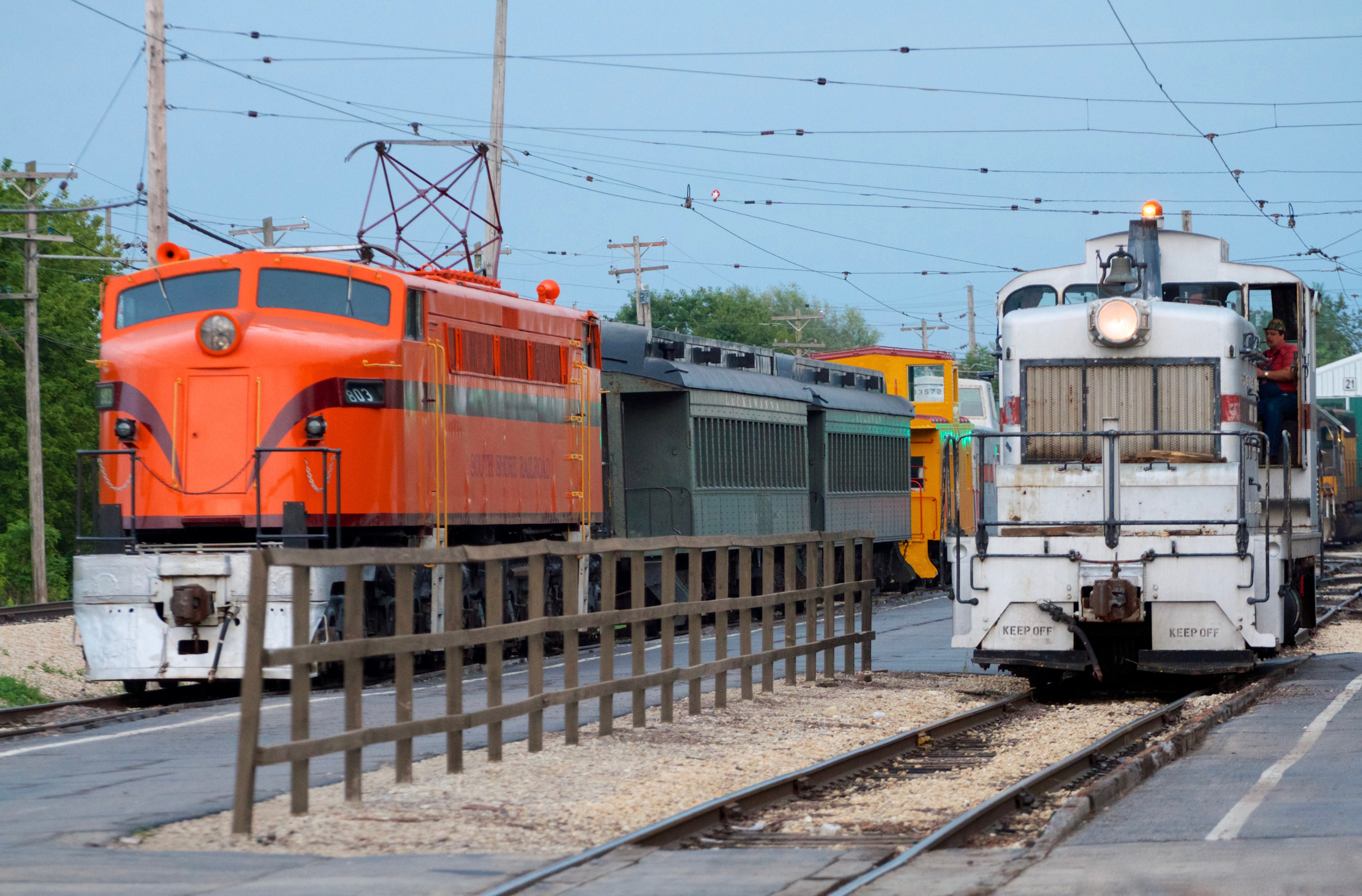 Ex-South Shore EP-4 "Little Joe" electric locomotive 803 and ex-Commonwealth Edison EMD SW1 switcher locomotive 15 at the Illinois Railway Museum, posed for photographers. (Additional information posted on the original Flickr page: During their 60th anniversary, the Illinois Railway Museum had a fundraiser that brought in photographers for a chance to shoot some of their more unusual trains.)